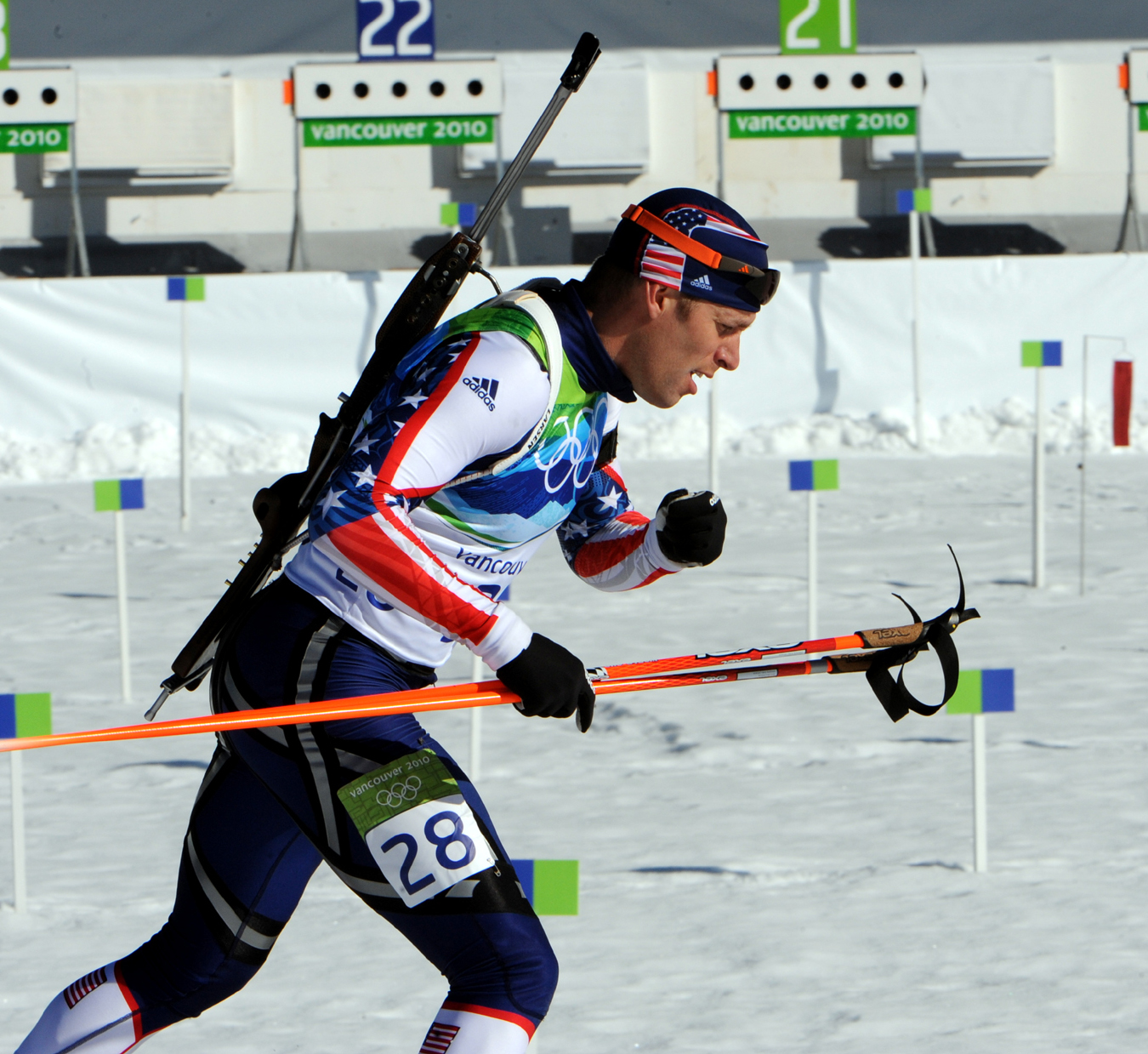 Army biathlete Sgt. Jeremy Teela of the Vermont National Guard departs the shooting range en route to a 29th-place finish in the Olympic men's 15-kilometer mass start race Feb. 21, 2010.